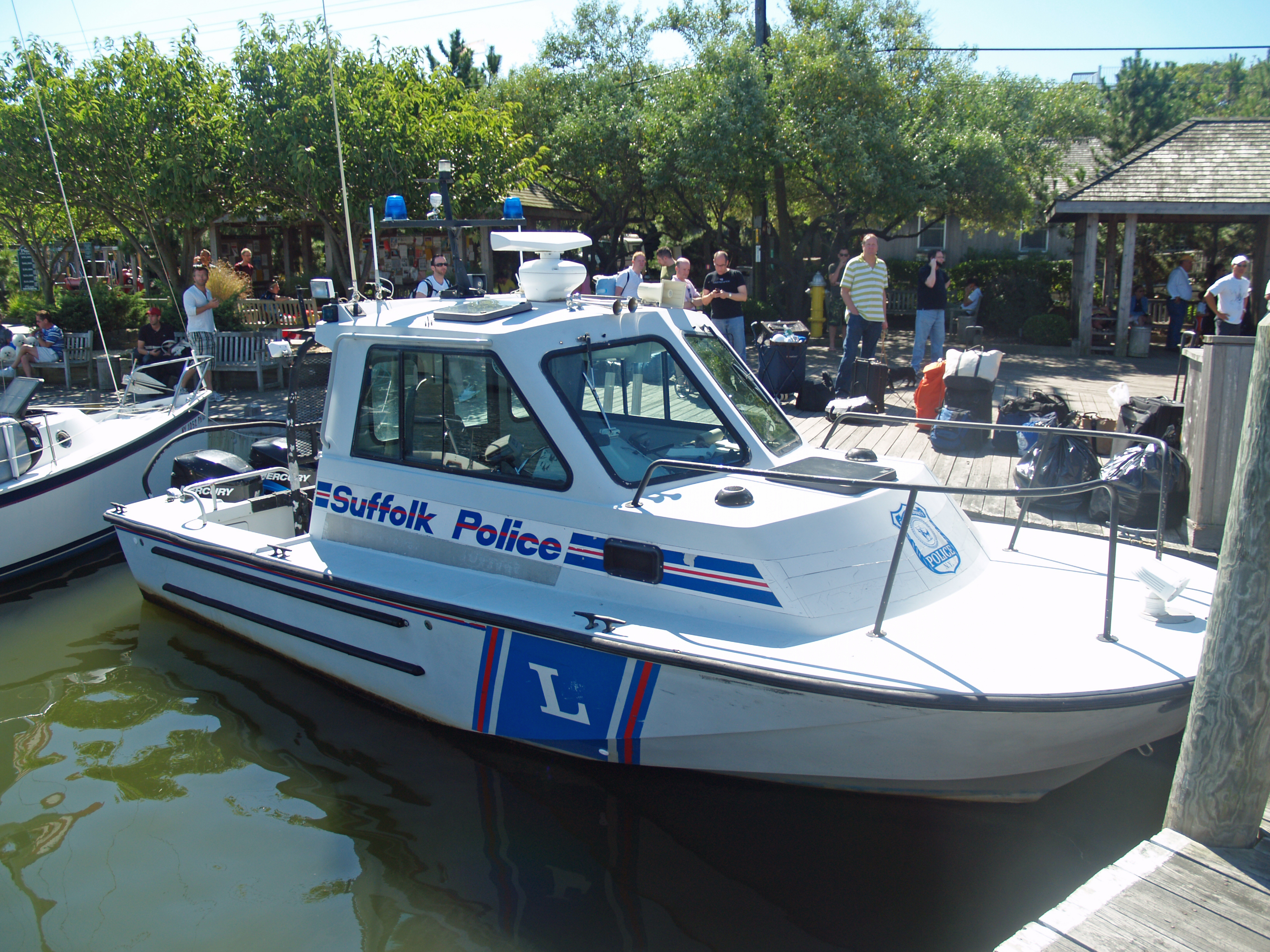 Suffolk County New York Police Boat docked at Fire Island Pines.